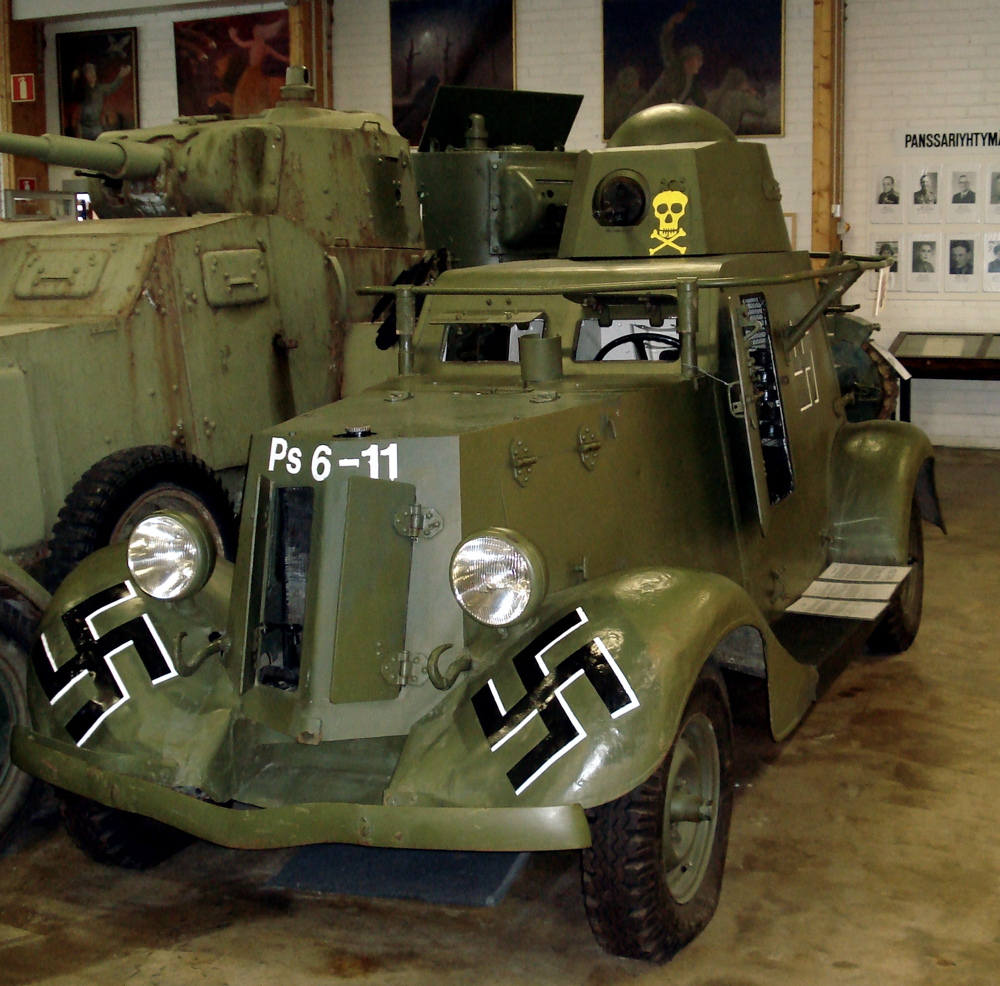 Soviet BA-20 armored car, in Finnish markings, , displayed in Finnish Tank Museum (Panssarimuseo) in Parola. Photo taken on July 14, 2006. Source: Photo by me, User:Balcer.